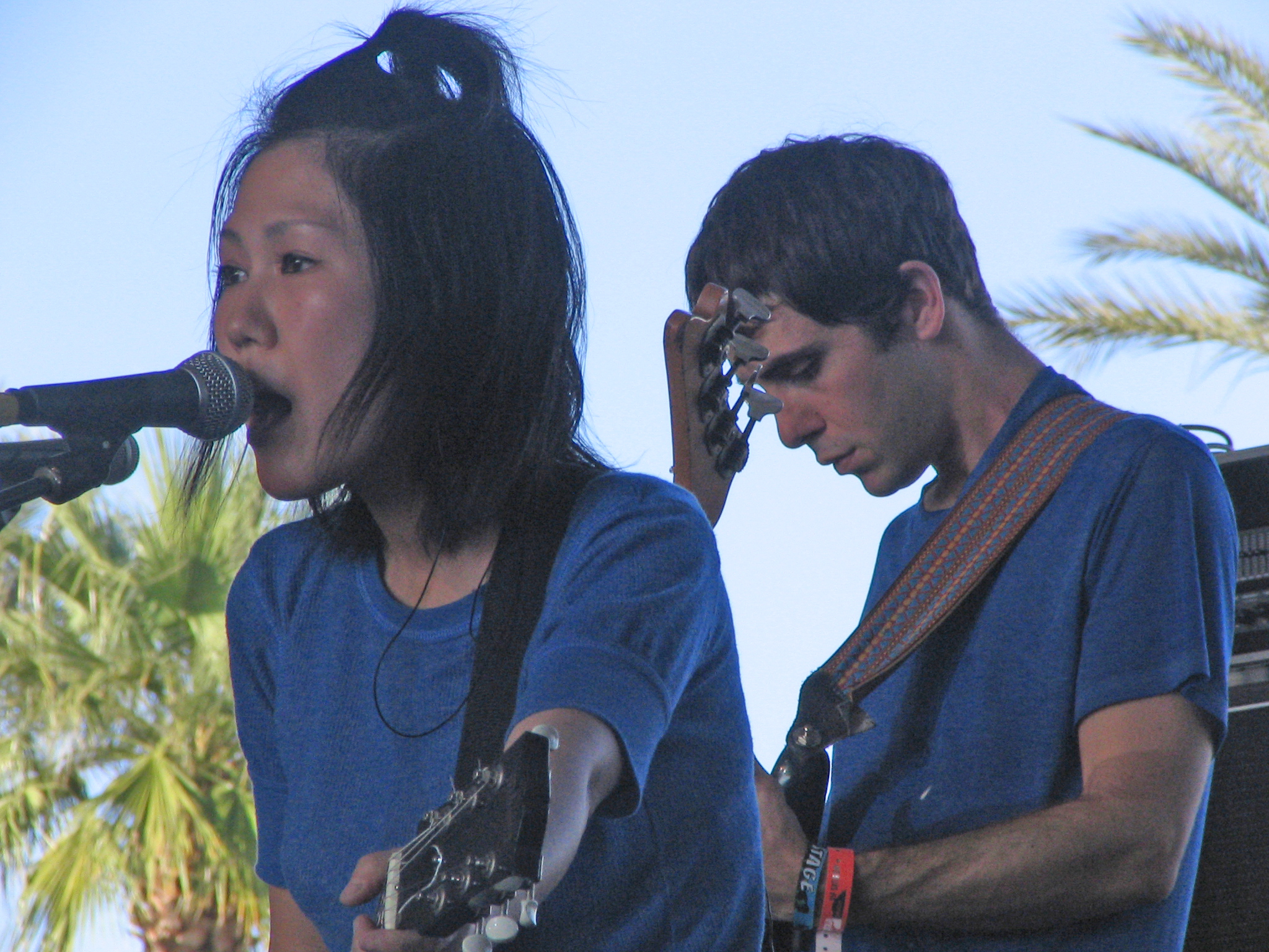 Satomi Matsuzaki and John Dieterich of Deerhoof playing live at the 2006 Coachella Valley Music and Arts Festival